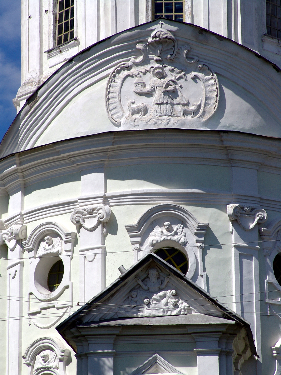 St. Michael's Church in Voronizh